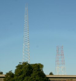 KSON AM tower being rebuilt in San Diego. The new tower is left, the former tower is right. Douglas Pierce photo